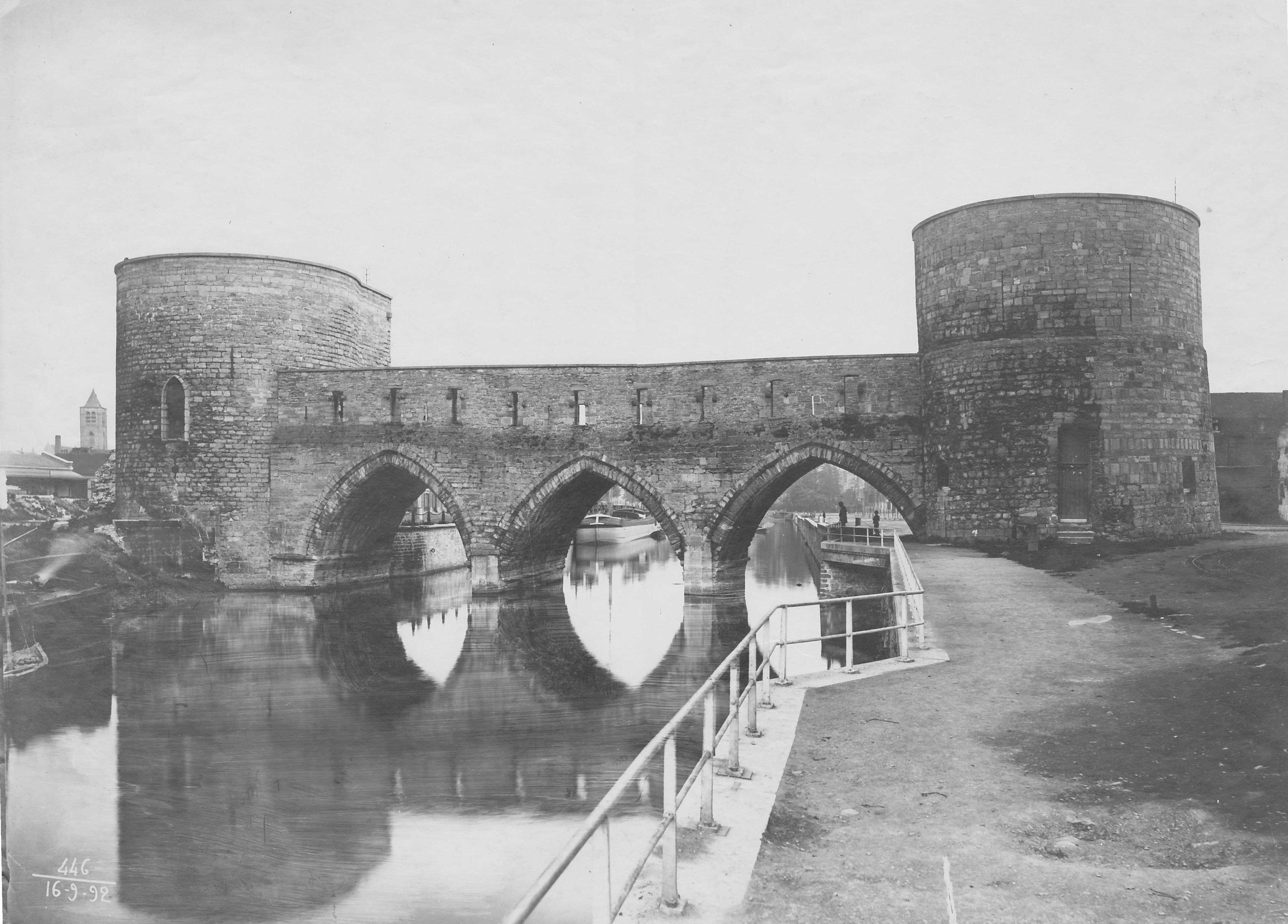 Tournai, Pont des Trous, 13./14. century. Anonymus photograph, dated 1892. After the original print (30x40 cm) in private posession.